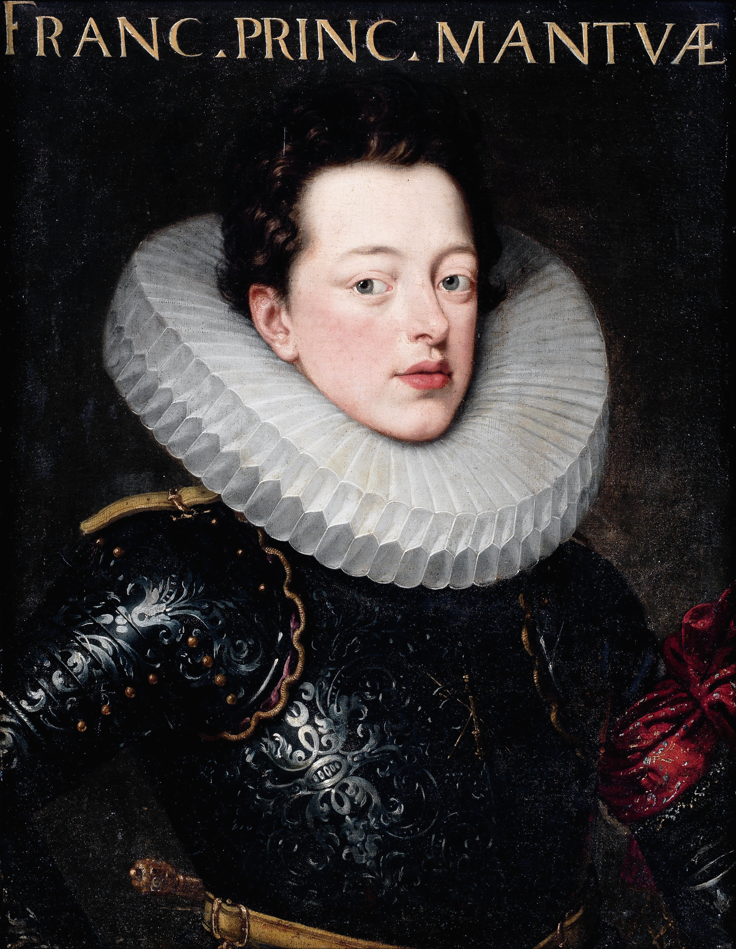 Francesco Gonzaga, Duke of Mantua